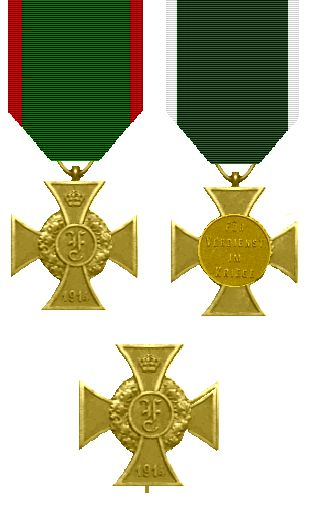 The Friedrich Cross of the Duchy of Anhalt 1914 - 1918